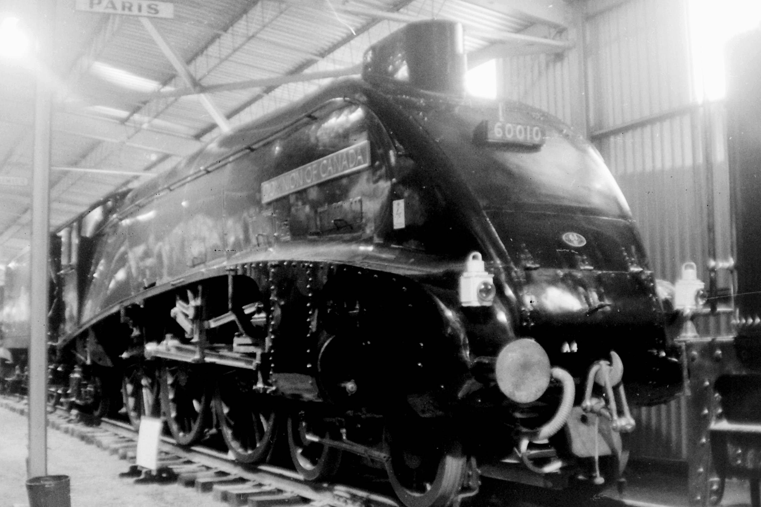 LNER "A4" 4-6-2 No.60010 "Dominion of Canada" at the Canadian Railway Museum, Montreal 8/70.